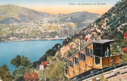 Como-Brunate funicolar - 1929